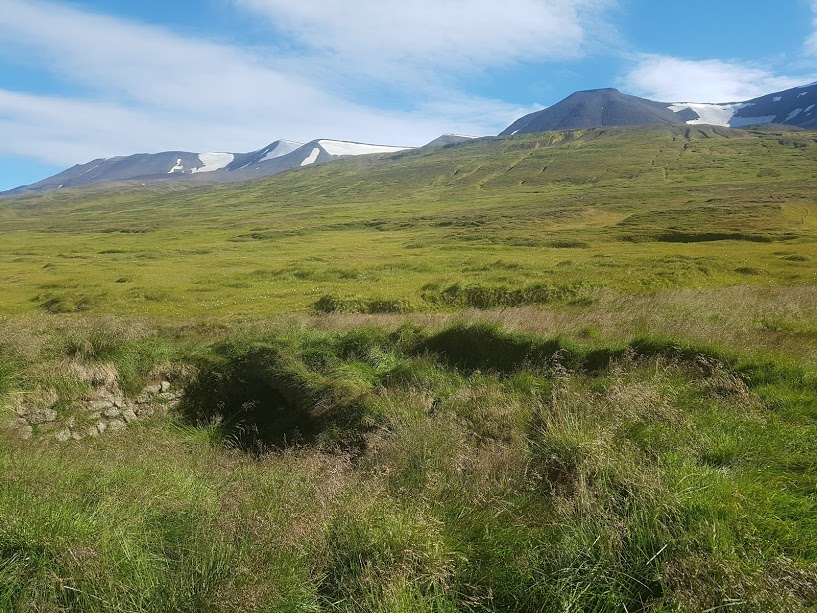 Austari-Krókar ruins